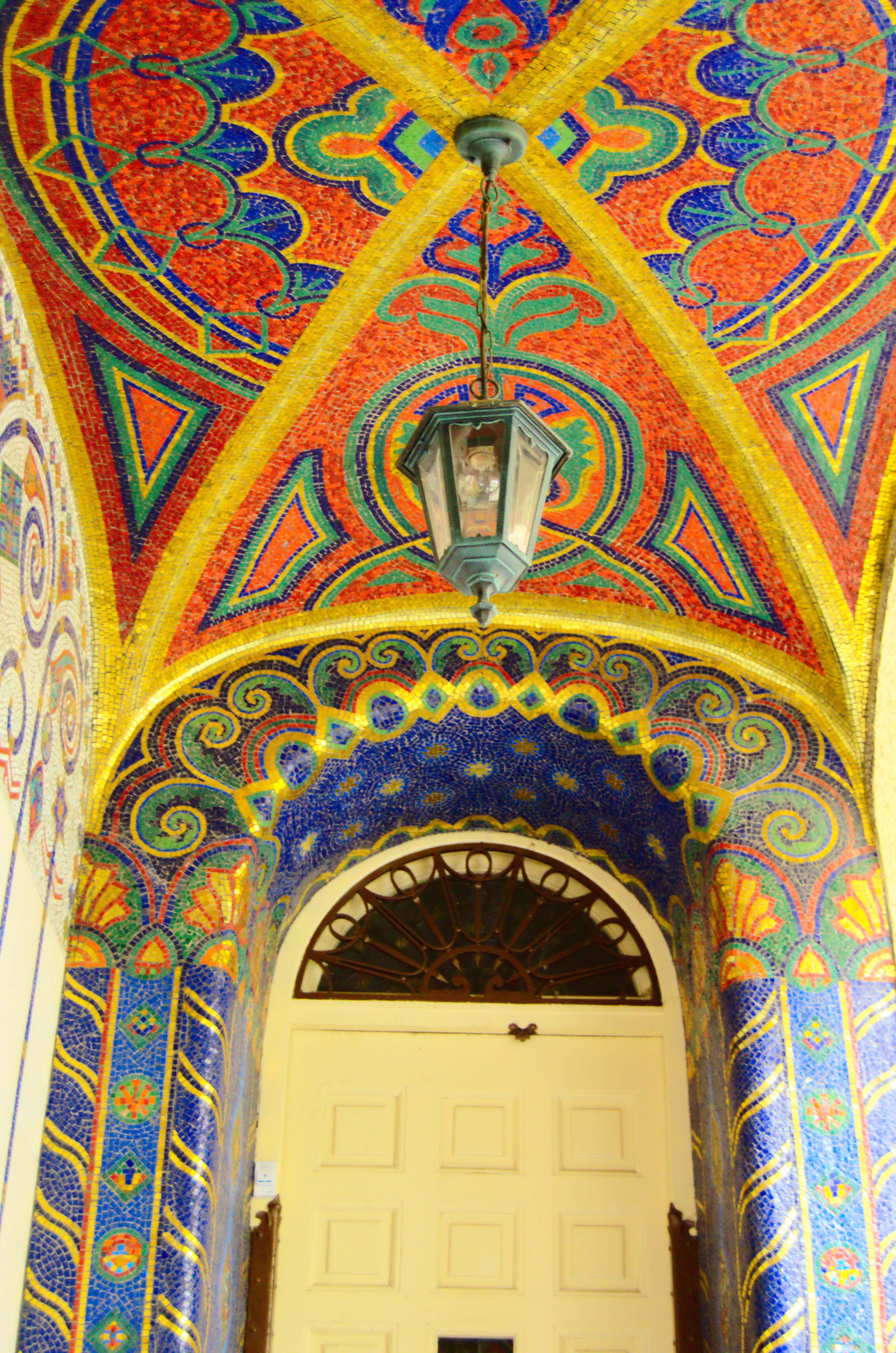 Vila Primavesi - Entrence (mosaic)